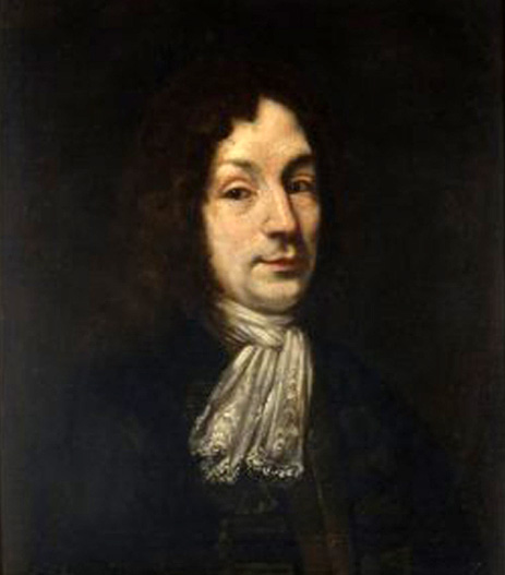 Portrait of the Italian composer Luca Antonio Predieri (1688–1767)